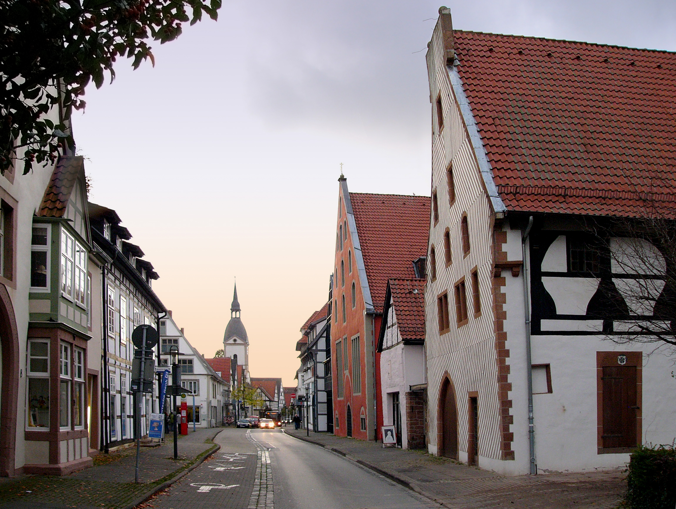 Papenstrasse in Lemgo, Germany